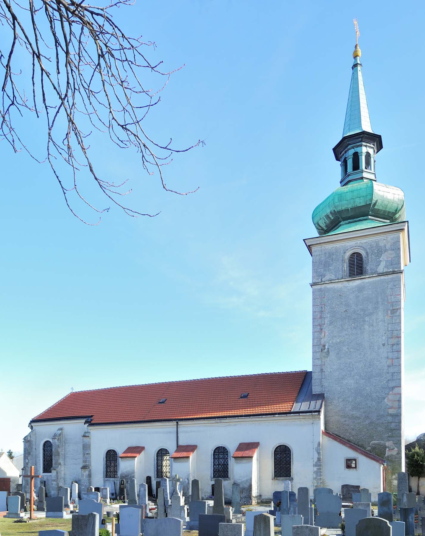 Catholic parish church in Rohrau, Lower Austria, Austria